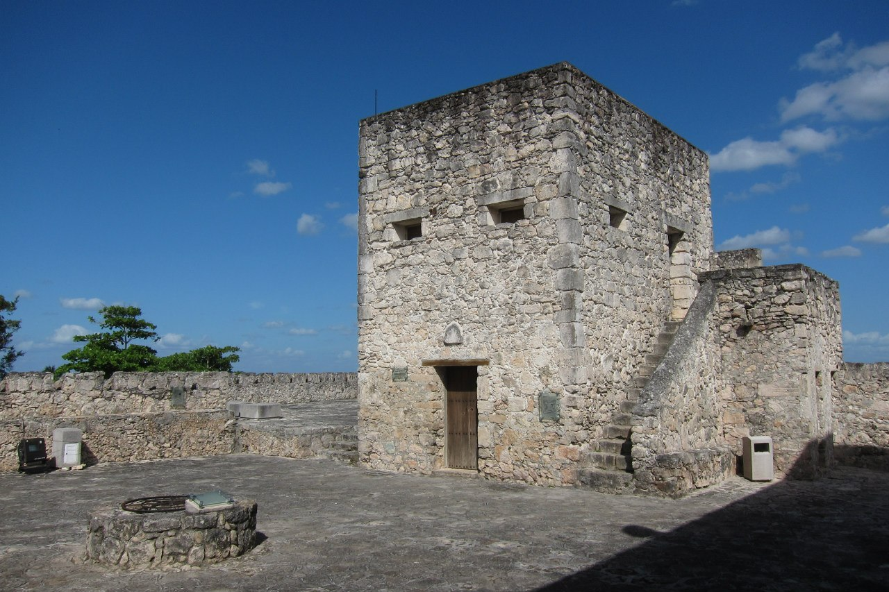 Fort San Felipe in Bacalar, Mexico